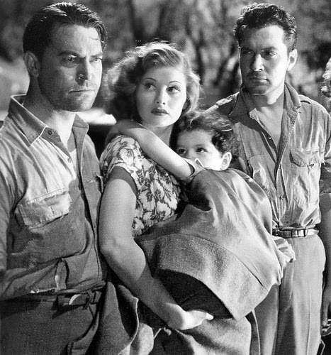 Promotional still for the 1939 film Five Came Back